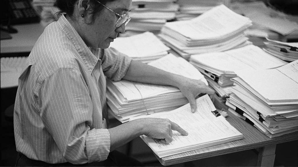 A reviewer at the National Institutes of Health evaluates a grant proposal.